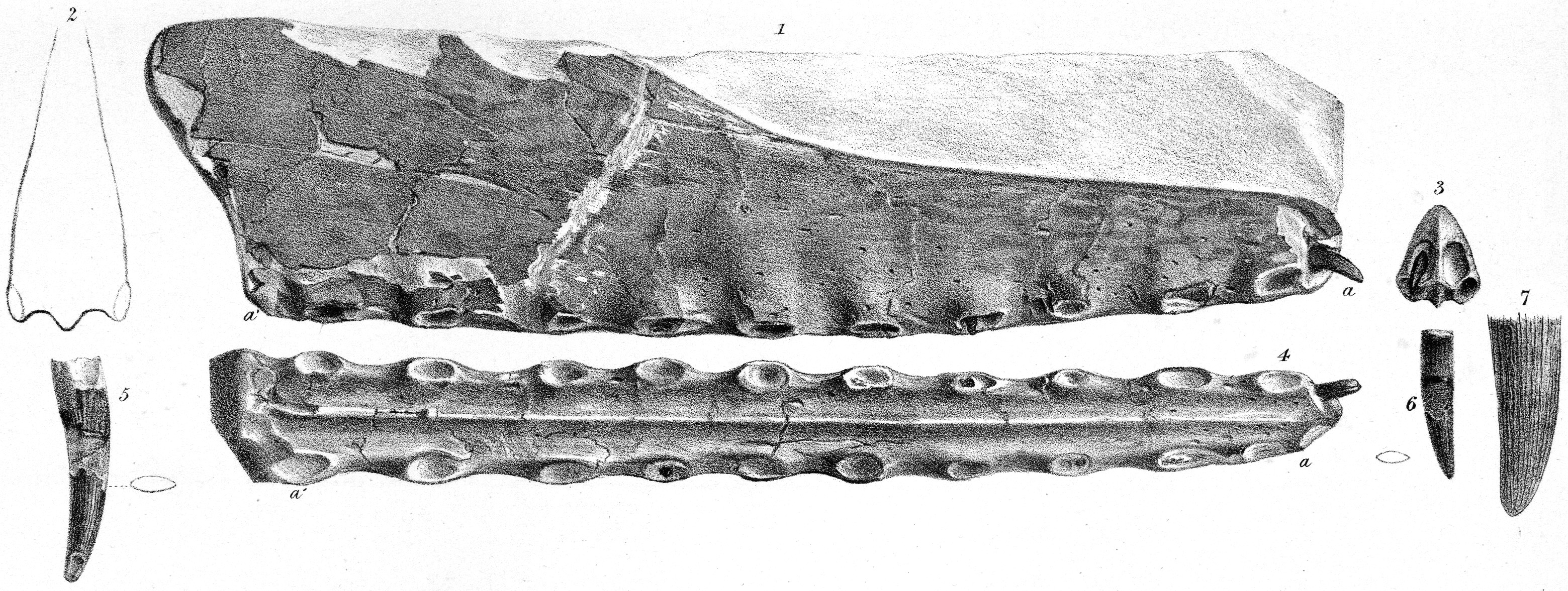 Ornithocheirid pterosaur holotype (later classified as a species of Coloborhynchus, today disputed between Anhanguera and Ornithocheirus) from the Burham chalk pit, Kent, England; in the Cabinet of James S. Bowerbank, Esq., F.R.S.. Side view of the end of the upper jaw, nat. size (a = alveoli). Outline of the section at the hinder fractured part. Anterior end of the jaw. Palatal surface of the jaw. The crown of one of the teeth of the same jaw. The crown of another tooth of the same jaw. Magnified view of a portion of the crown of a tooth of the same jaw.